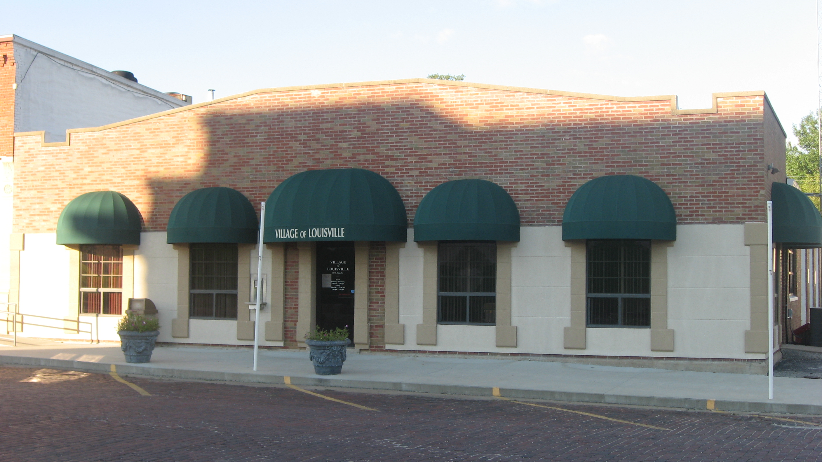 Front of Village Hall in Louisville, Illinois, United States, located at 177 S. Main Street.